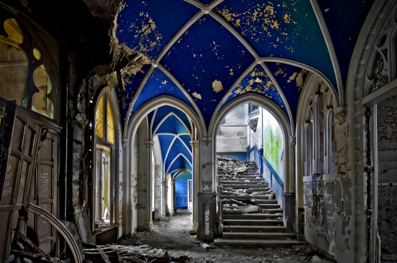 Francouzská rodina zadala výstavbu zámku anglickému architektovi Milnerovi a až do války jej využívali jako letní sídlo. Je to velkolepá stavba, když před ní stojíme a hledíme vzhůru, připadáme si jen jako malé smítko prachu. Lámat si hlavu s vchodem je zbytečné. Vlézt do rozpadlých chodeb se dá libovolným oknem či přímo hlavním vchodem, který je pootevřený. Uvnitř nás vítá smutná podívaná.